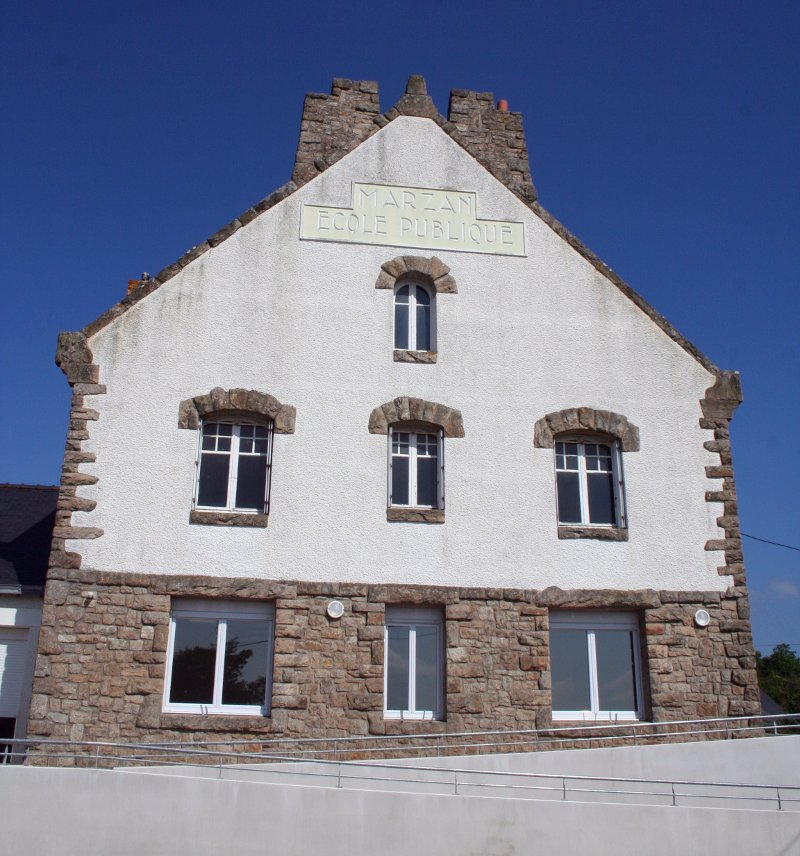 Le Pigeon Vert's public primary school